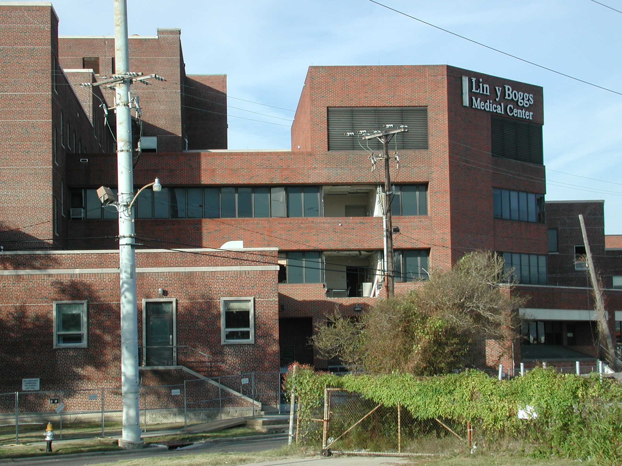 The Dilapidated Lindy Boggs Medical Center, as seen in 2007